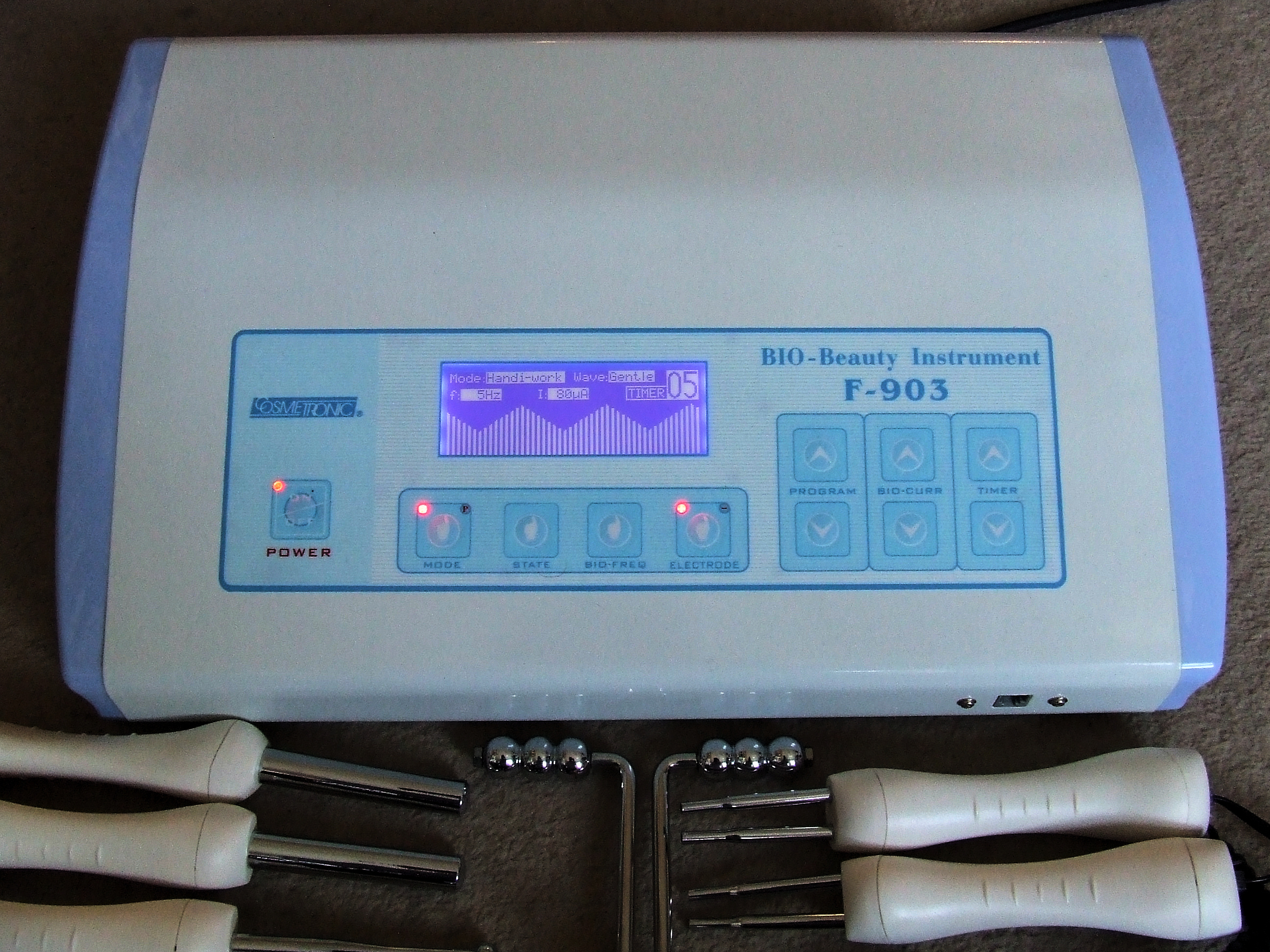 Cosmetic electrotherapy machine. This is the F-903 BIO-Skin smoother made by Silver Fox & Cosmetronic Hair & Beauty Equipment (UK) Photograph by author